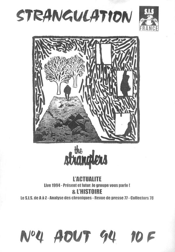 Cover of Strangulation n°4, the fanzine published by SIS France (1993-2000)